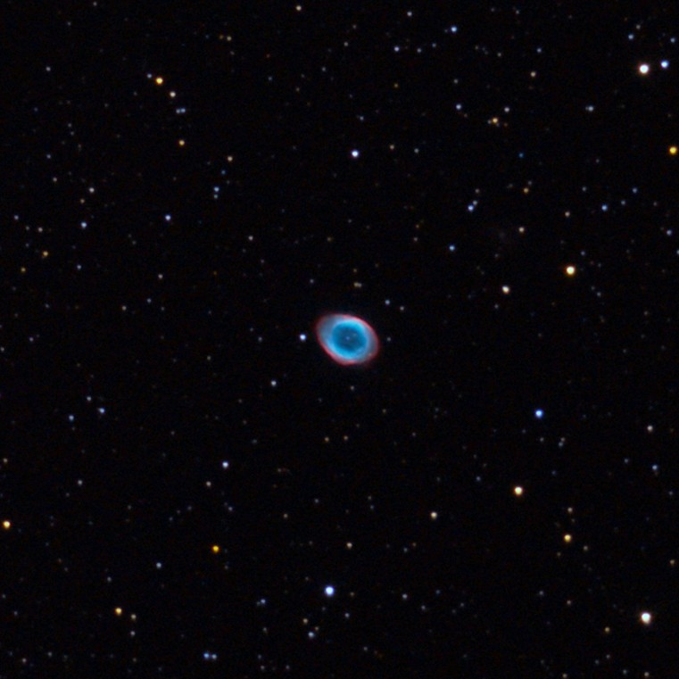 Messier 57 "Ring" Nebula: Gaseous shell (~1 l.y. in diameter) surrounds dead star: a white dwarf (faint star in the center of the nebula). The white dwarf -- a remnant of the star, in fact, dead star's nucleus -- is hot enough to emit powerful ultraviolet radiation. That ultraviolet emission makes surrounding gases to glow.